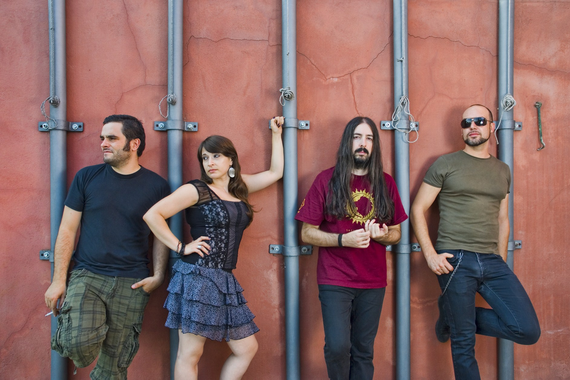 Promoshoot for ThanatoSchizO's Origami at Régua (Portugal) 2010